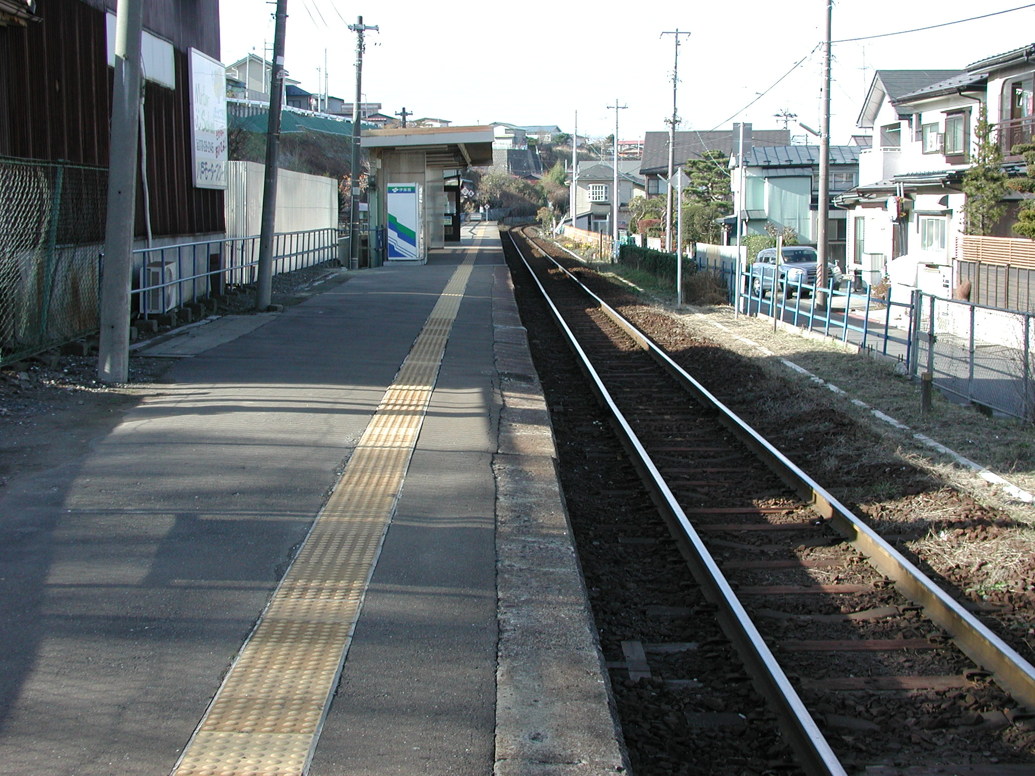 Shirogane Station in Home